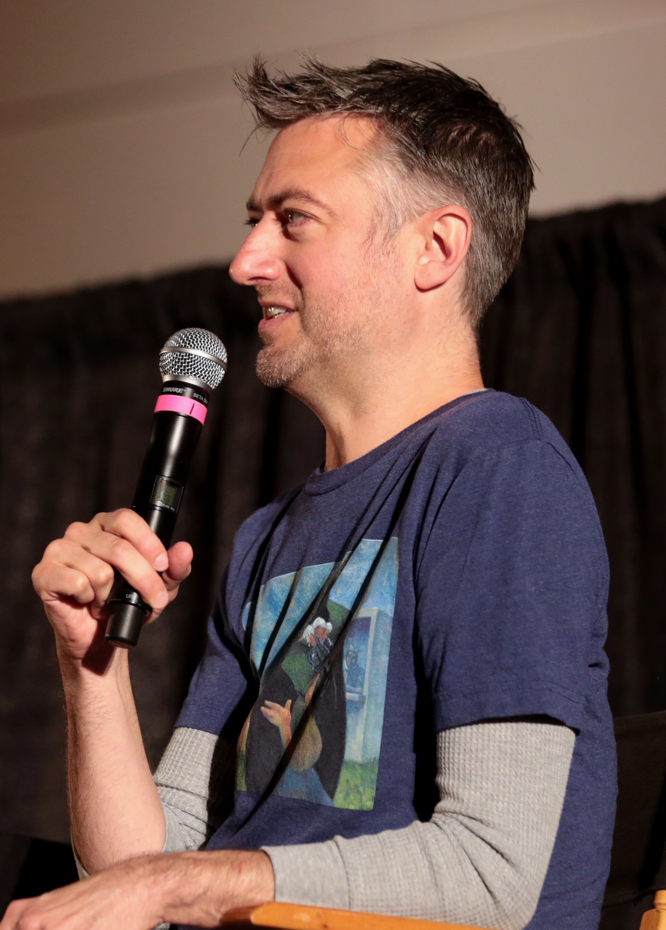 Sean Gunn speaking at the 2018 Phoenix Comic Fest in Phoenix, Arizona.